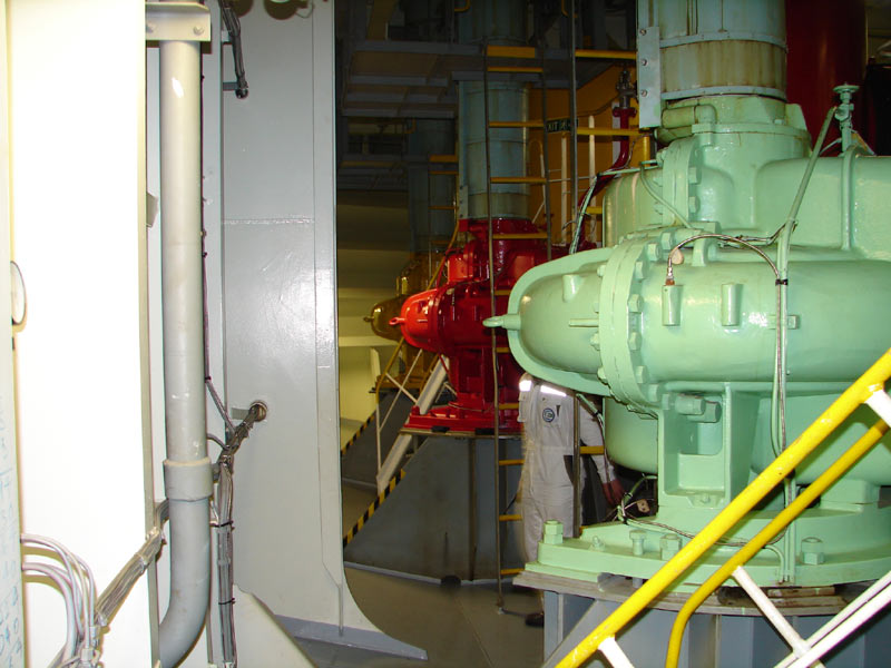 Three oil pumps, each of 5000 m3/h, on the VLCC Algarve